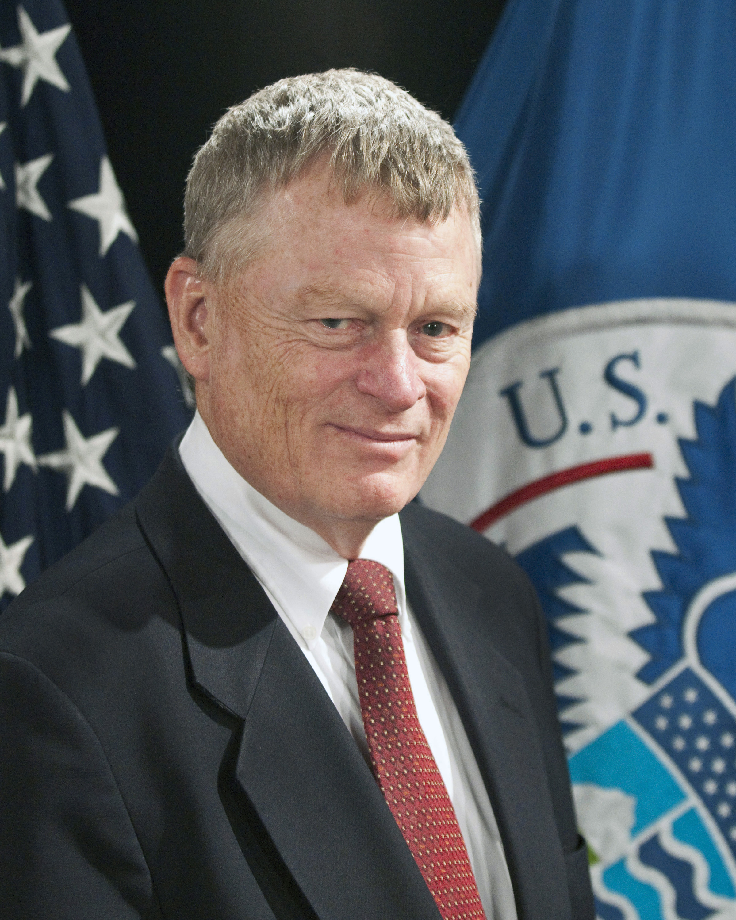 Official portrait of acting Secretary of Homeland Security Rand Beers.